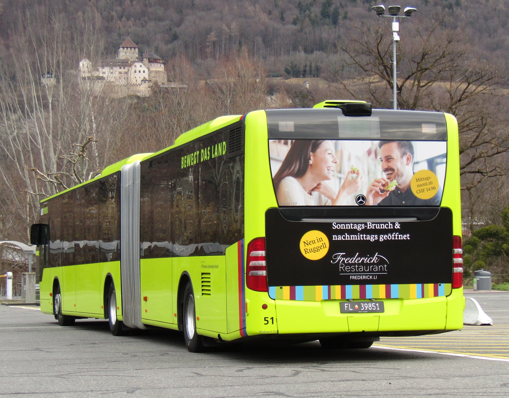 FL 39851 Liechtenstein Bus in Vaduz